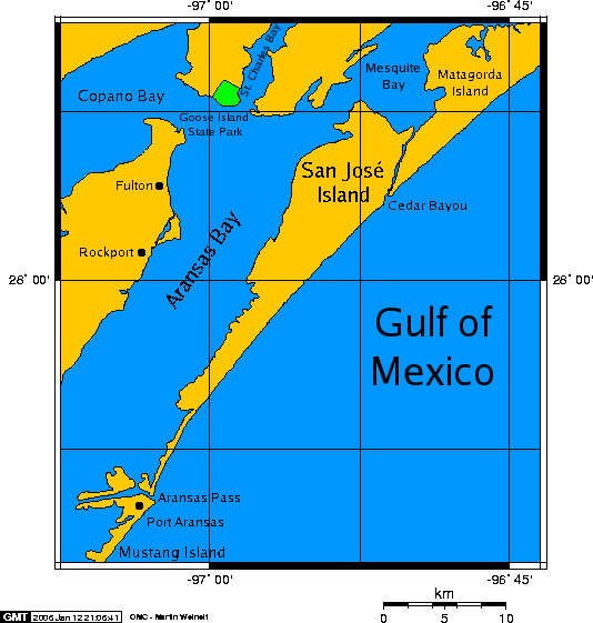 A map of San José Island — a Gulf Coast Barrier island of Texas. Located north of the town of Port Aransas, in Aransas County, Texas. Credits The map was created with this online map creation tool.